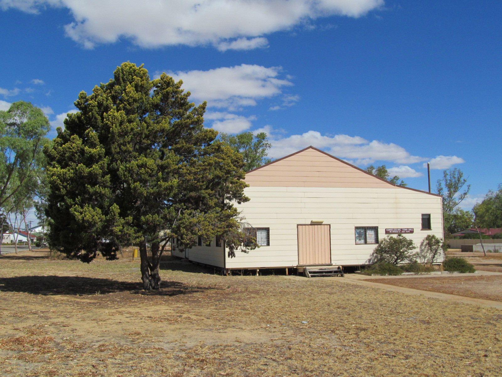 Korrelocking town hall, built in 1911 and relocated to Gamble Street, Wyalkatchem, in 1975.